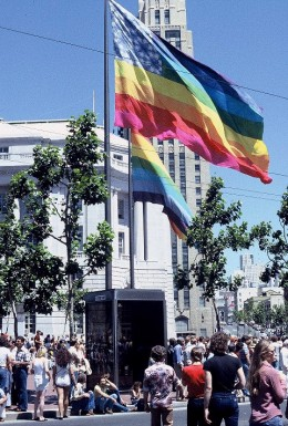 Picture of origional rainbow flag flown at 1978 gay freedom day parade in san francisco